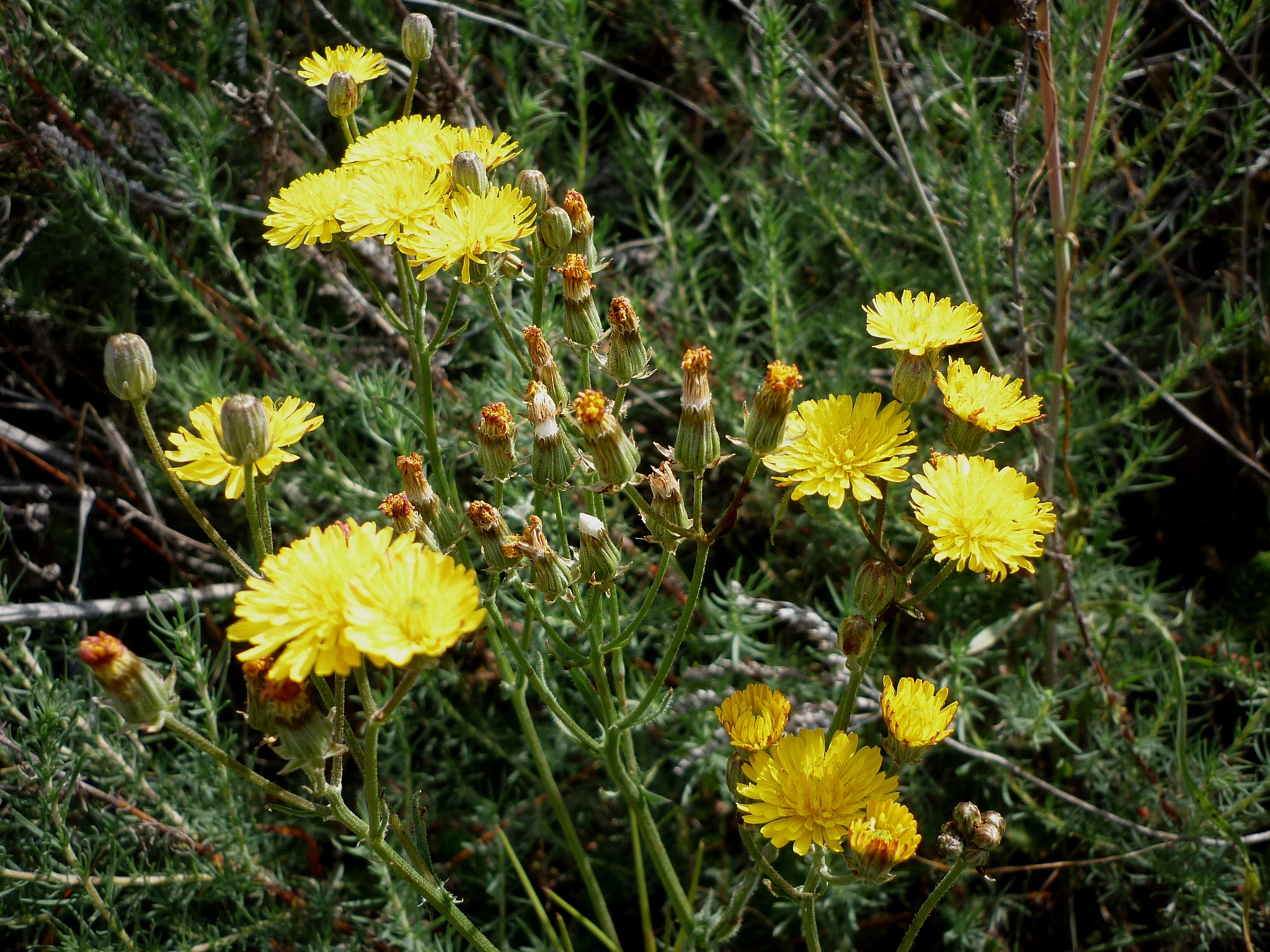 Sonchus tenerrimus. In Torà (Segarra-Catalunya). To 590 m. altitude